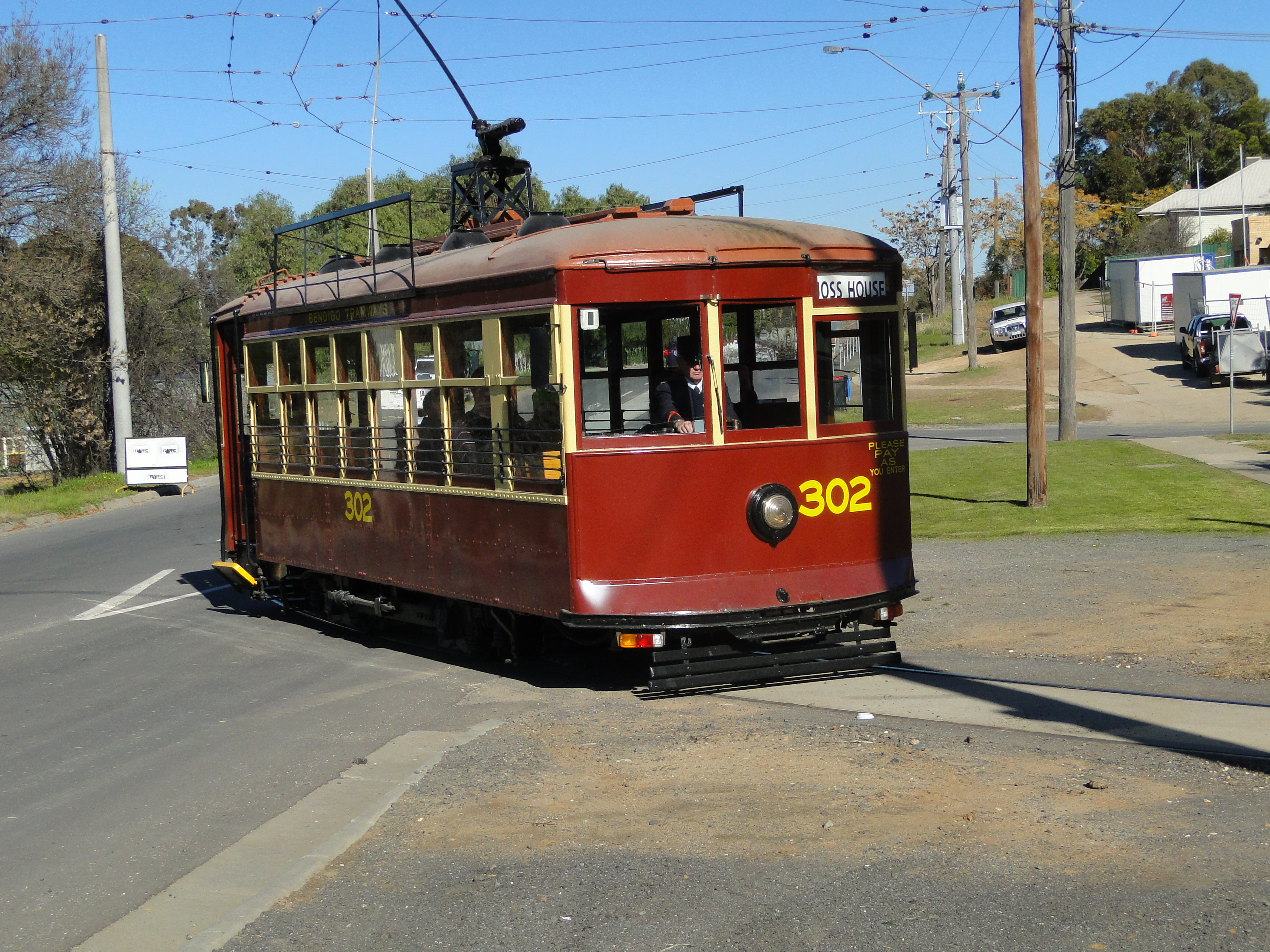 Bendigo tram number 302, a Birney tram from Adelaide and later Geelong, enters the terminus at the Joss House in North Bendigo.